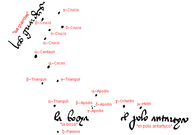 Tentative identification of the stars depicted in the celestial map of the southern hemisphere by astronomer-physician Mestre João Faras, as sketched in his letter dated May 1, 1500 from 'Vera Cruz' (newly-discovered Brazil) to King Manuel I of Portugal. The identification of the stars are as suggested by Luís de Albuquerque (1970) "A navegação astronómica" in A. Cortesão, 1970, editor, História da Cartografia Portuguesa, Coimbra, vol. 2, p.225-371.